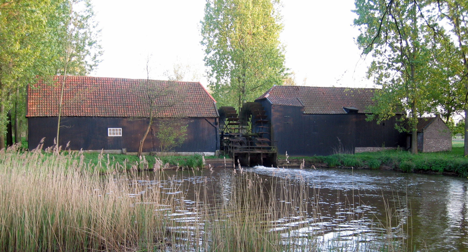 Coll watermill, Eindhoven, Holland